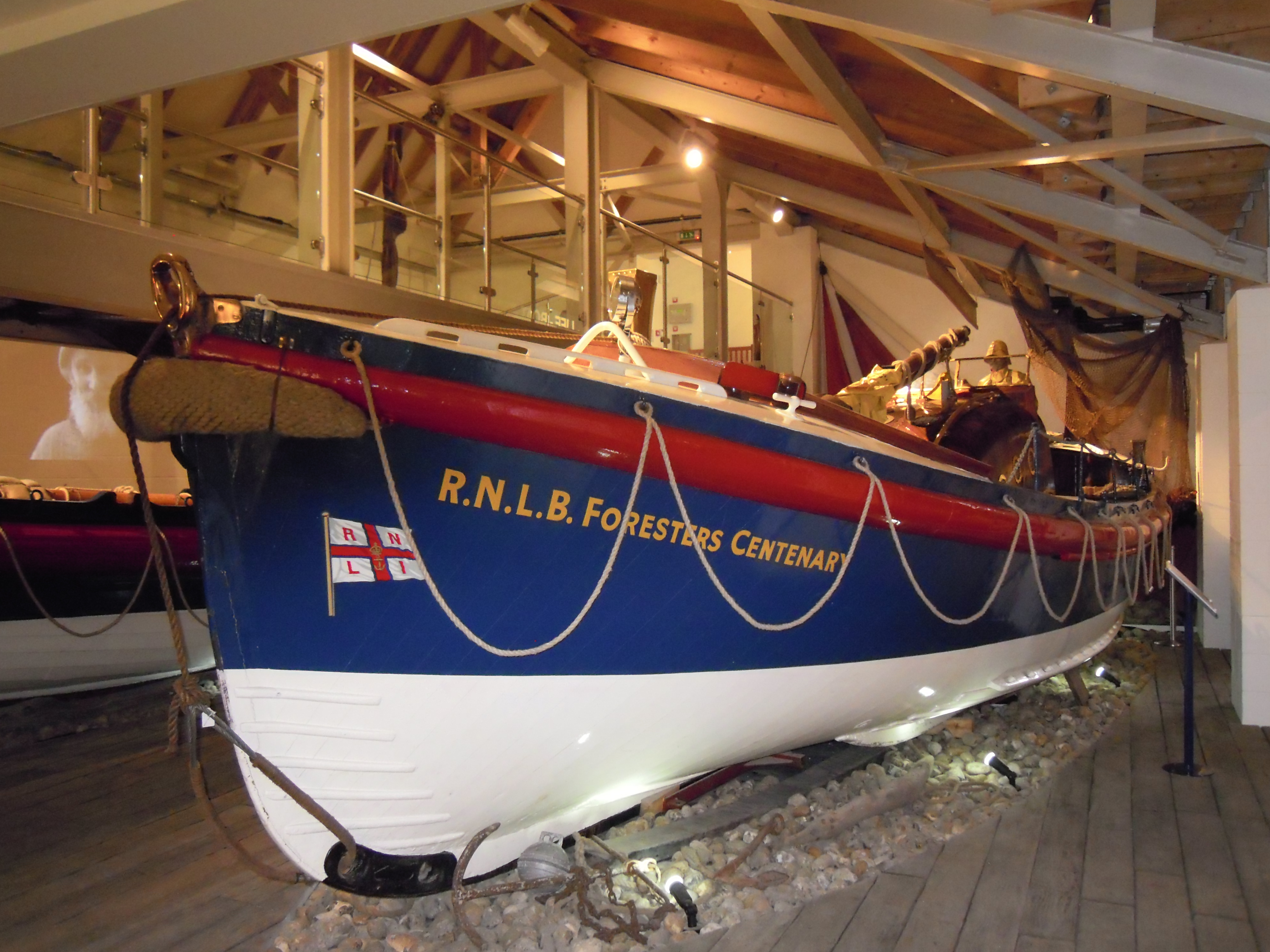 Sheringham Lifeboat Foresters Centenary ON786 on display at Sheringham Museum